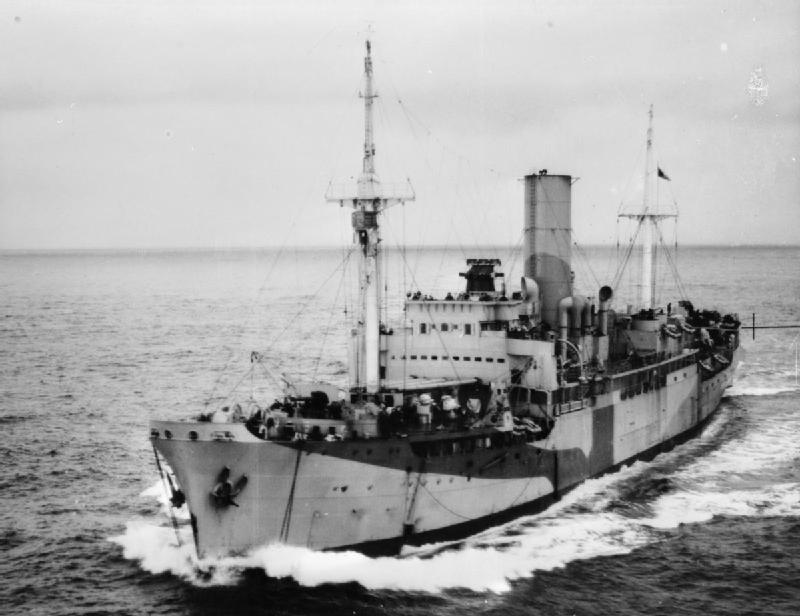 HMS Port Quebec Underway at sea